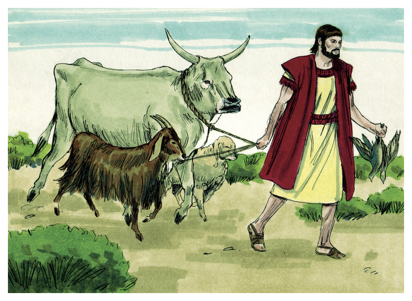 Biblical illustration of Book of Genesis Chapter 15